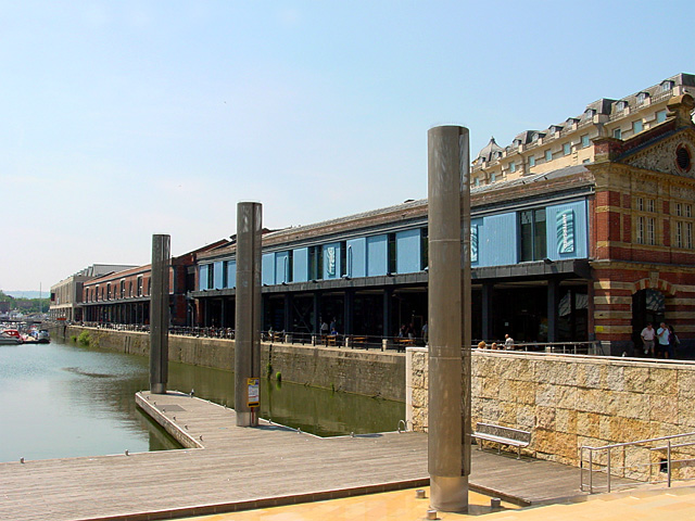 Bristol Watershed. The Watershed was originally a banana warehouse on the dock-side, now houses a bar and media centre (apparently the first in Britain when it opened in 1982). The façade of the warehouse is surprisingly ornate which was due to its closeness to the Cathedral.